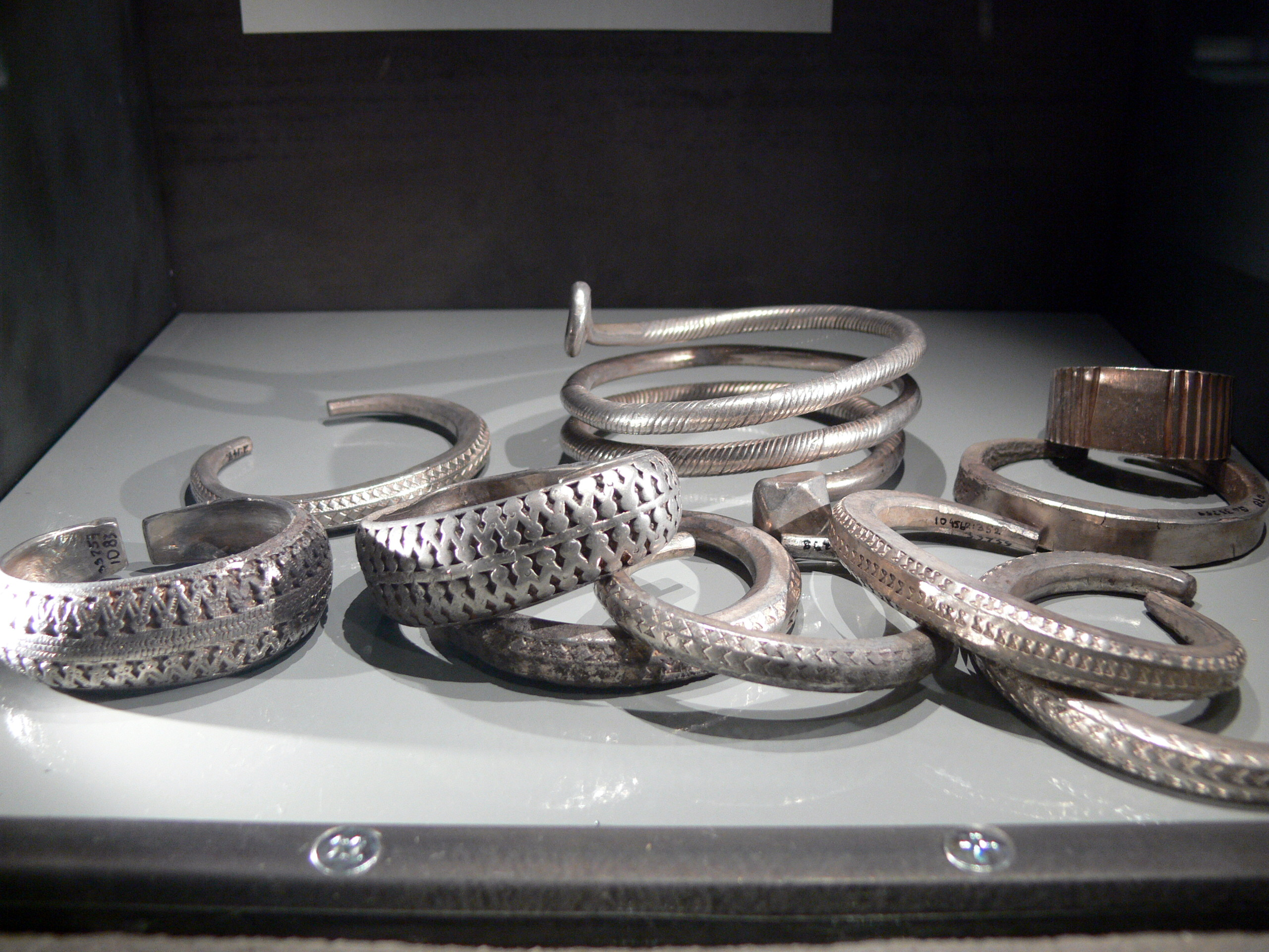 Fornsalen Museum, Visby ( Gotland ). Silver treasure of Spelling.